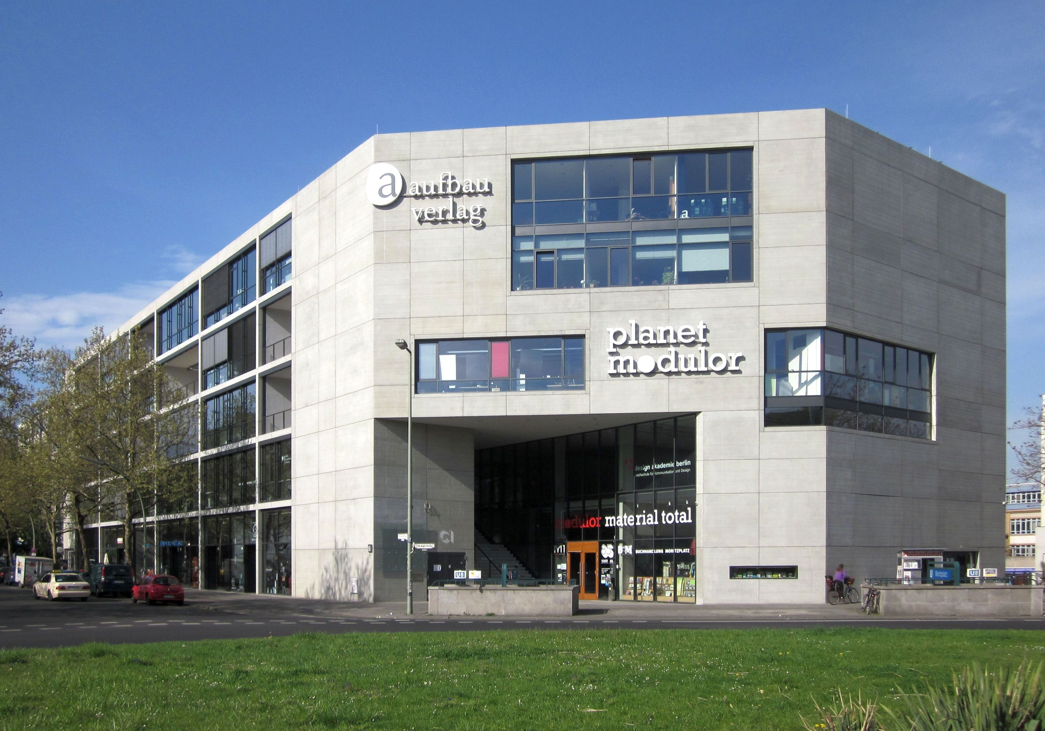 The Aufbau-Haus at Prinzenstraße No. 85, corner of Moritzplatz (in the front), in Berlin-Kreuzberg. The building, which is the seat of the Aufbau publishing house, among others, was built from 2009 to 2011 to a design by the architects Clarke und Kuhn who integrated the old building of the piano manufacturer Bechstein, which was constructed in the 1970s.